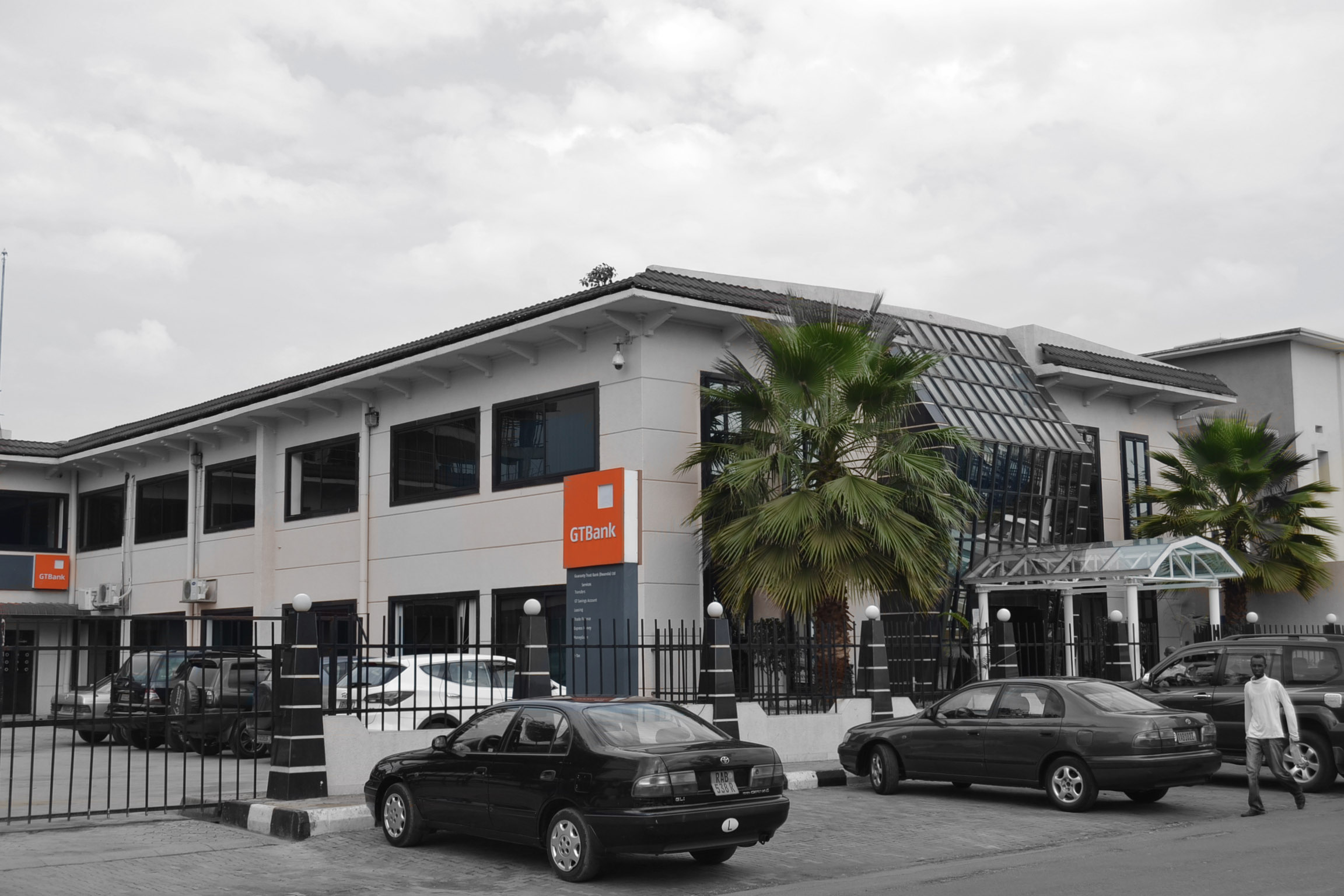 Guaranty Trust Bank (Rwanda) Ltd Headquarter in Kigali